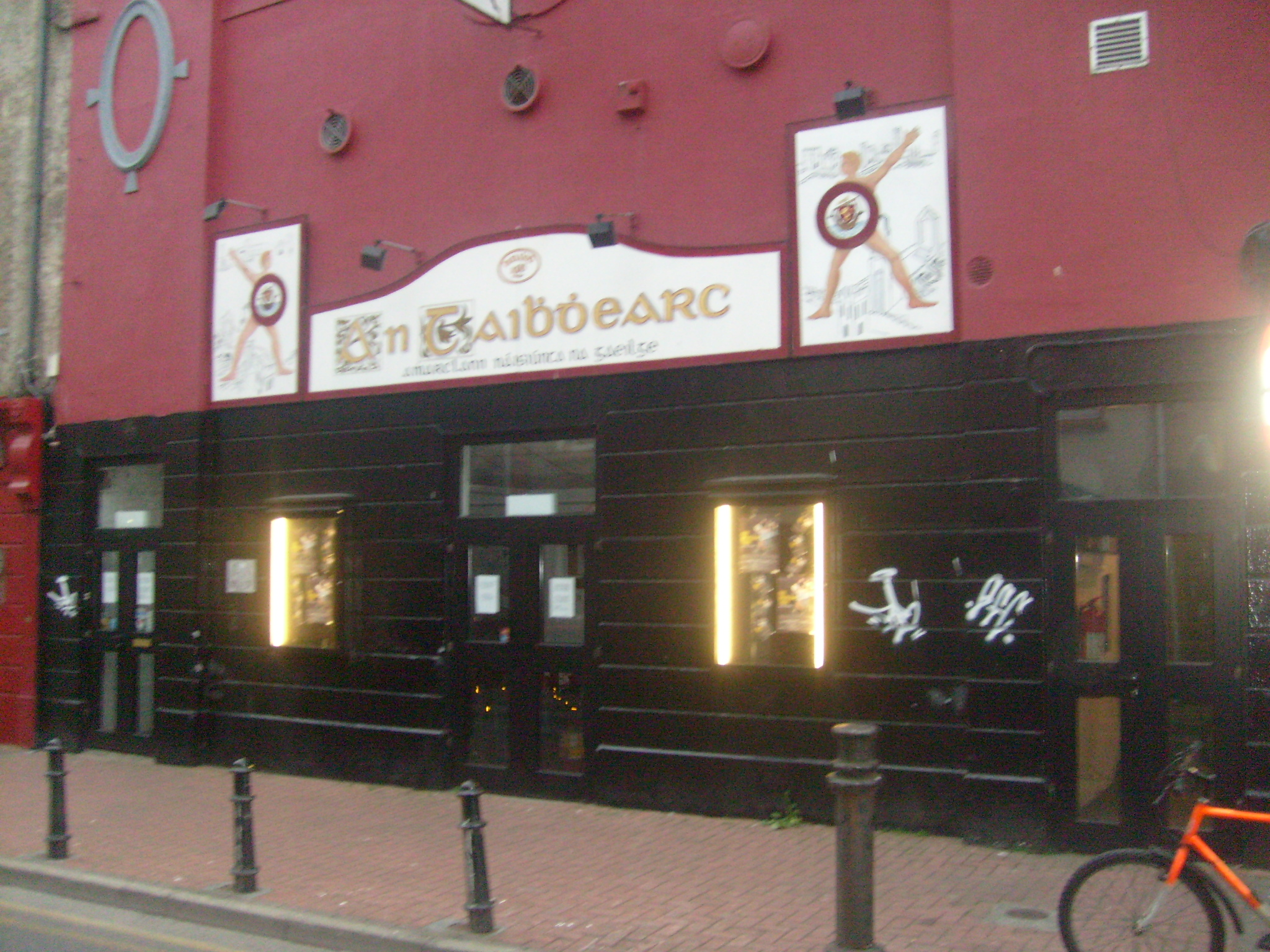 Taibhdhearc na Gaillimhe, the national Irish language theatre of Ireland in Galway City, Republic of Ireland